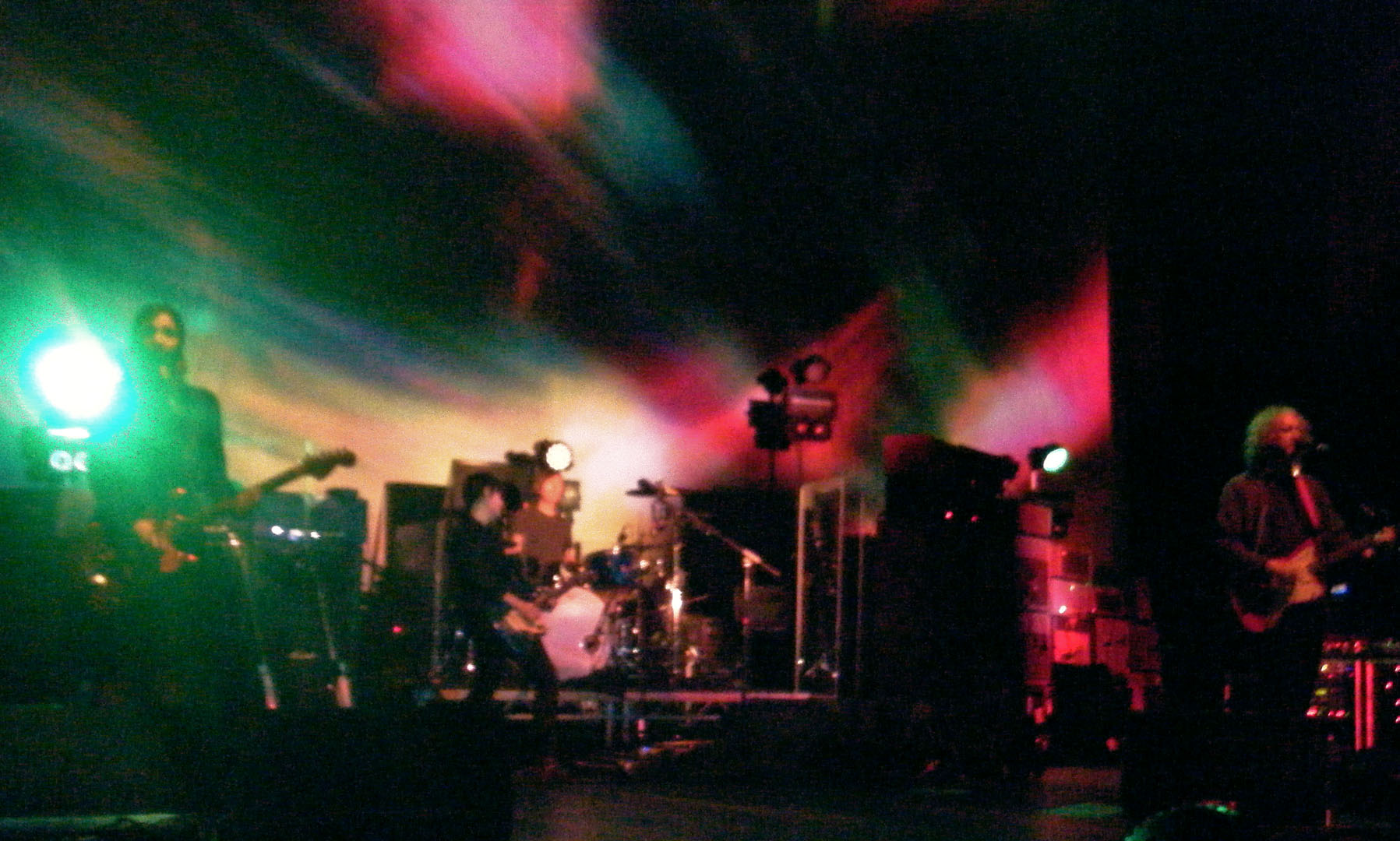 The alternative rock band My Bloody Valentine performing live at the O2 Apollo in Manchester, United Kingdom on 10 March 2013.